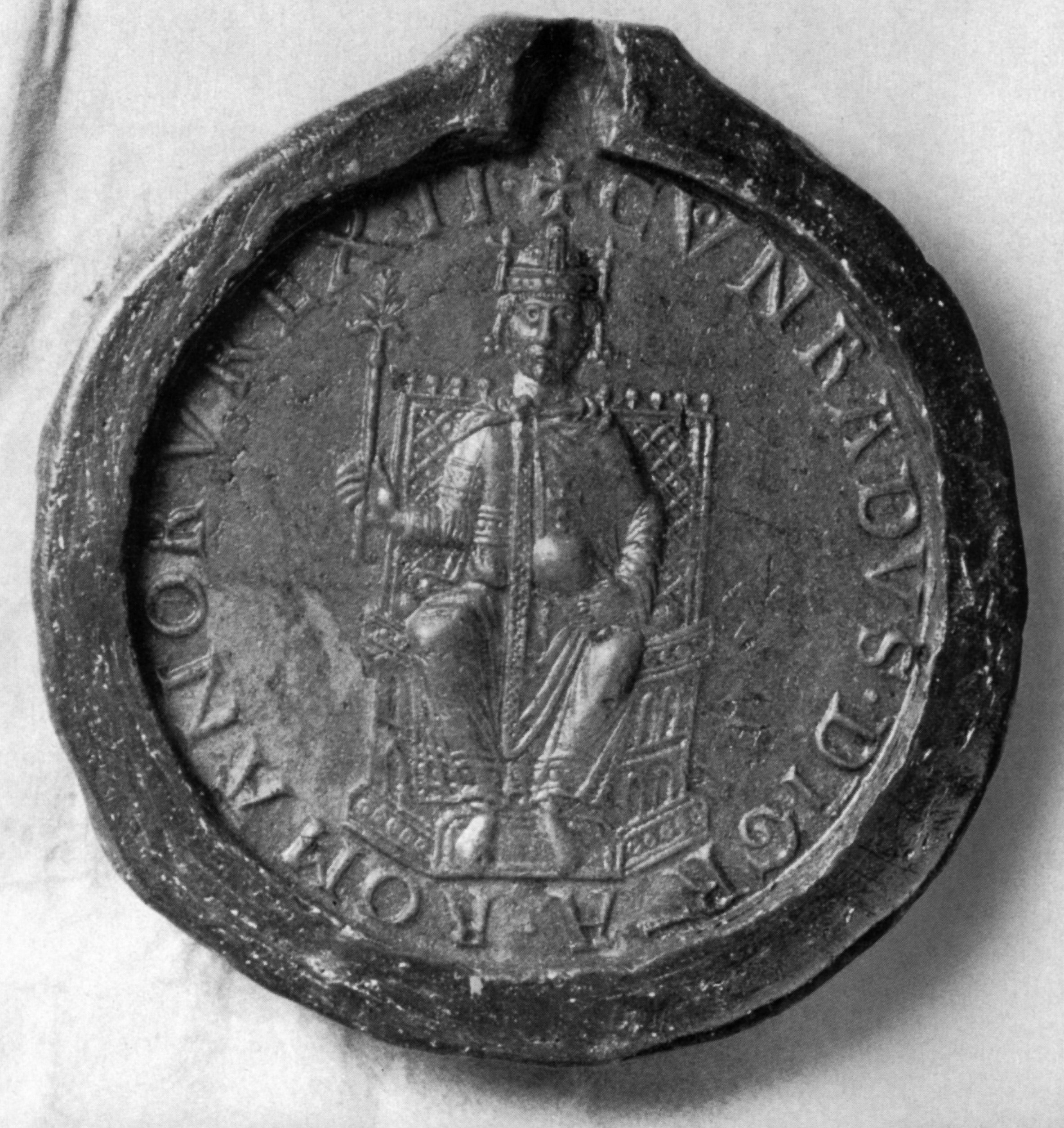 Seal of King Conrad III in use from 1138 to 1152; the actual seal pictured is from 1143 (Landeshauptarchiv Koblenz, Best. 180, Nr. 23: 1143)